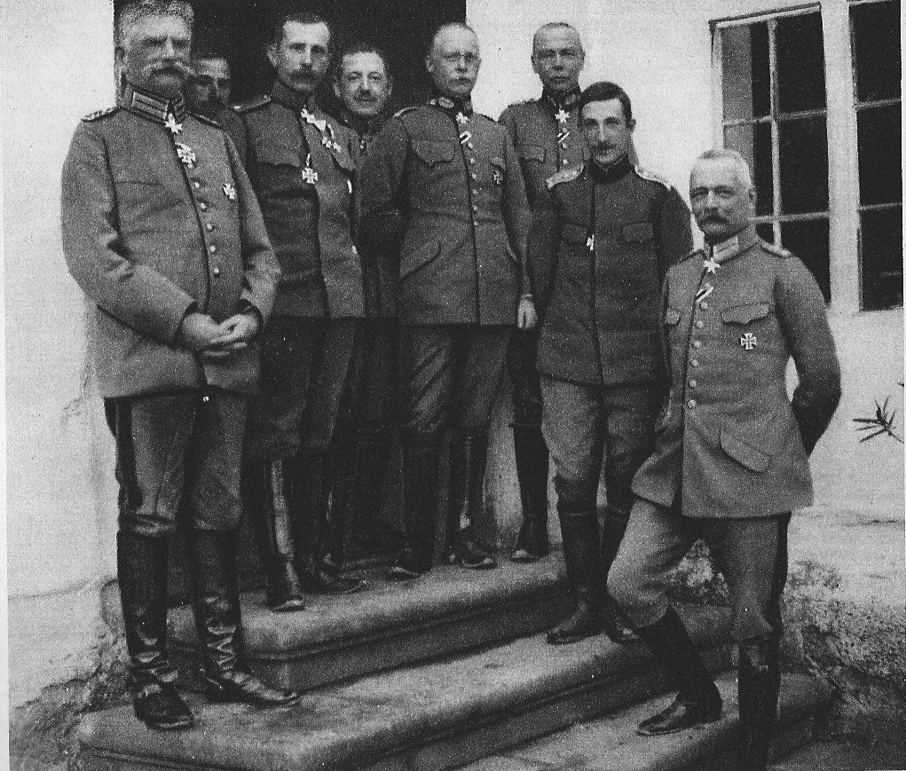 Meeting between the German and Bulgarian high command in Paraćin, Serbia(16 november 1915). From right to left: Chief of the German General Staff Erich von Falkenhayn,crown prince Boris ,major general Hans von Seeckt,major general Gerhard Tappen,colonel Gantscheff, the Bulgarian Commander-in-chief Nikola Zhekov, unknown person and field marshal August von Mackensen.